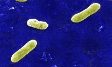 This scanning electron micrograph (SEM) depicted a number of Gram-negative Bordetella bronchiseptica coccobacilli bacteria. This organism is commonly found to be the cause of respiratory tract infections in dogs, as well as human beings whose immune system had been compromised including those who are infected by the HIV virus. Genetically very similar and closely related to B. pertussis, which is evidenced in the fact that it too possesses the gene to express pertussis toxin, this Bordetella member does not produce the toxin like its fellow genus member. This bacterium can cause a wide range of sympomts, including mild respiratory illnesses such as rhinitis, to those indicative of full-blown pneumonia, with accompanying “pertussis-like” manifestations, especially in immunocompromised individuals, as in the case of those with an HIV infection.